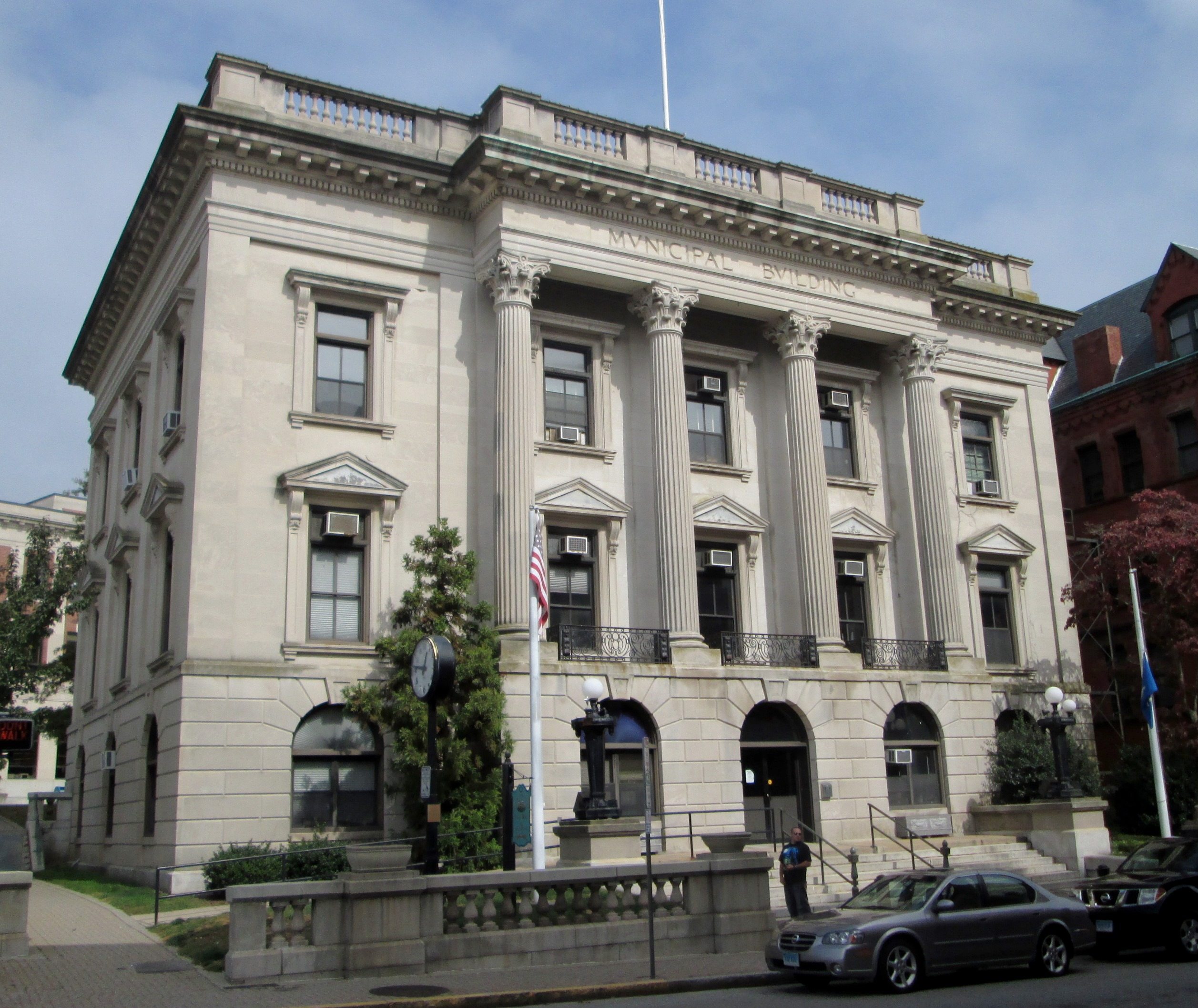 The New London Municipal Building, at 181 State Street at the corner of Union Street in New London, Connecticut, was built in 1912 and was designed by James Sweeney in the Beaux-Arts style. It replaced an earlier Municipal Building, built in 1856 and designed by W. T. Hallett. The Municipal Building is part of the Downtown New London Historic District. (Sources: [1] and [2])